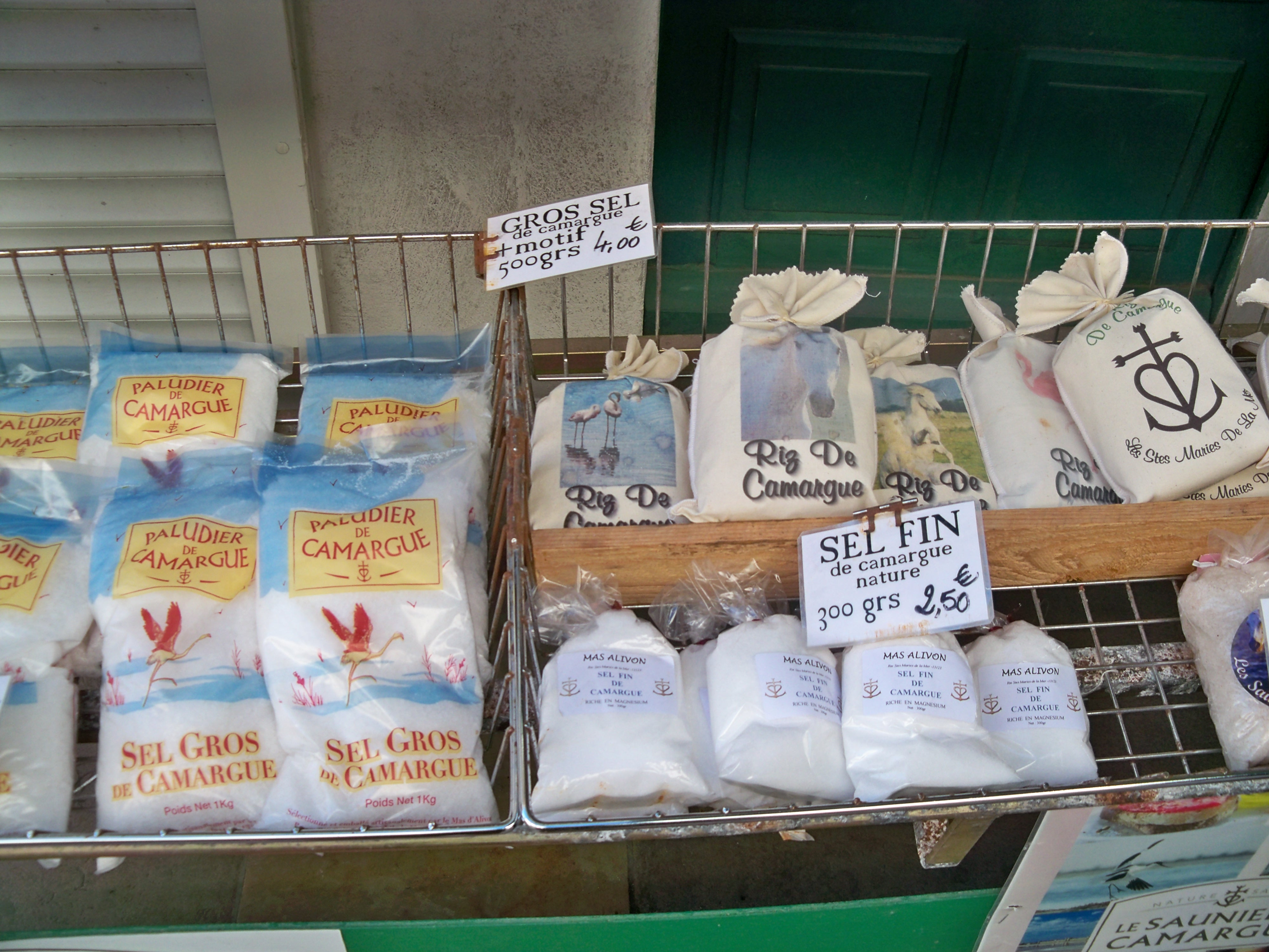 Salt from Camargue